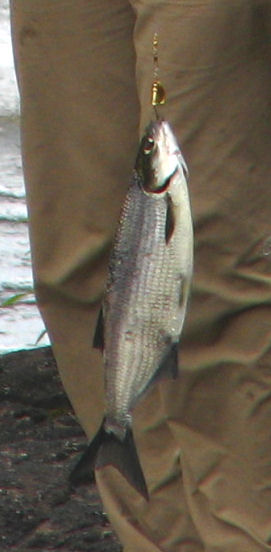 Mooneye (Hiodon alosoides), Quetico Provincial Park, Ontario, Canada